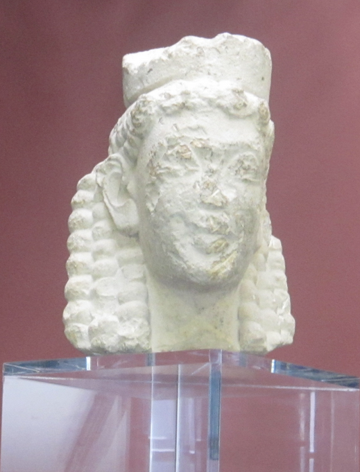 Probabile raffigurazione della ninfa Ciane. Artista locale, VI secolo a.C.